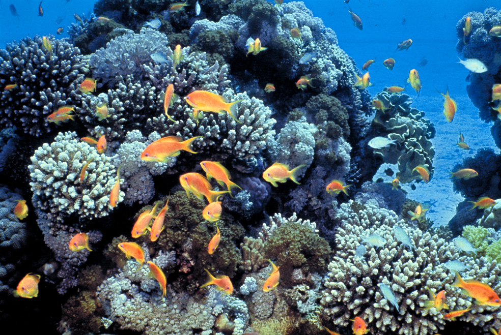 Coral reef with Pseudanthias squamipinnis, Gulf of Eilat Red Sea